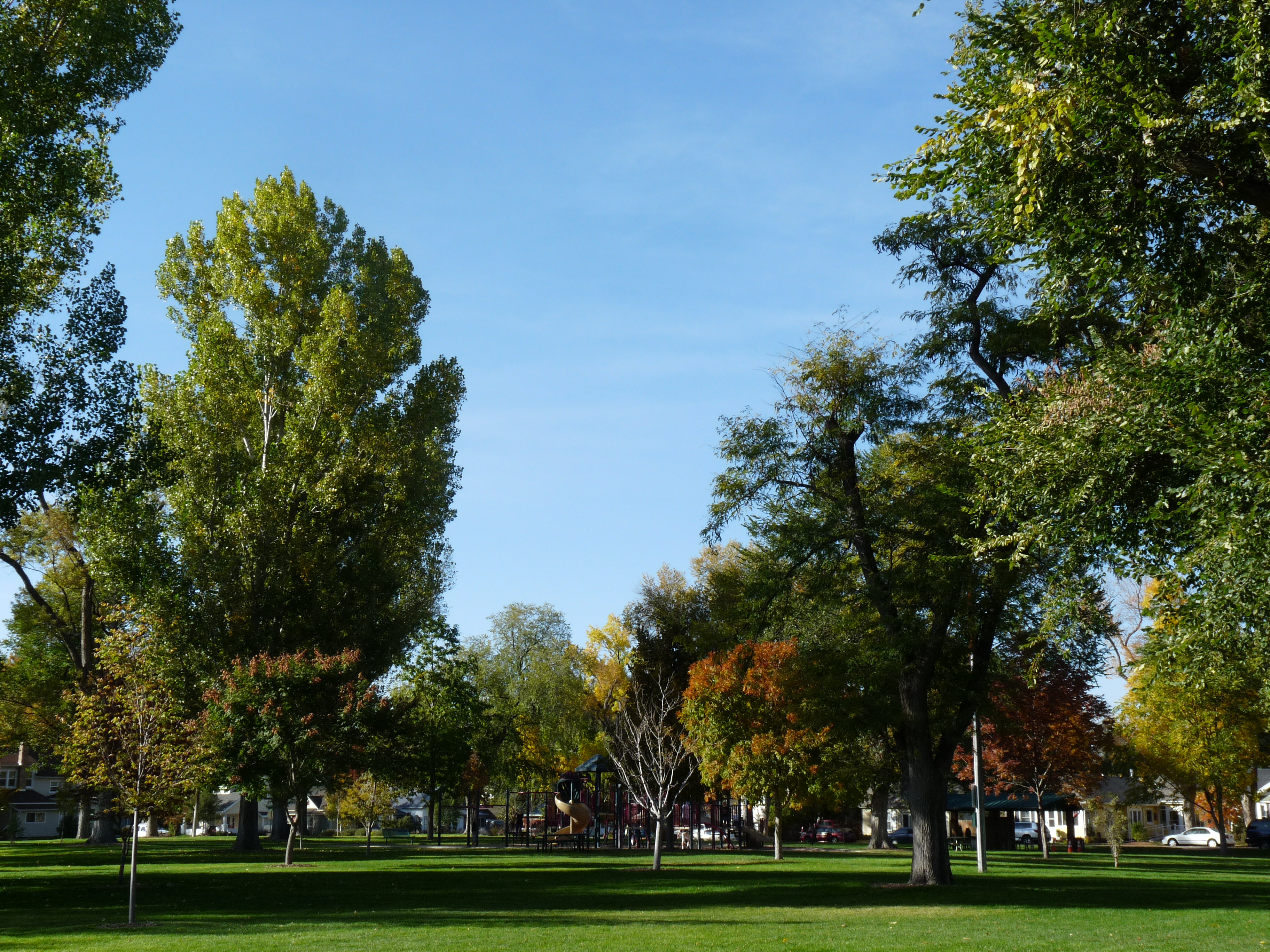 Windsor Main park in fall